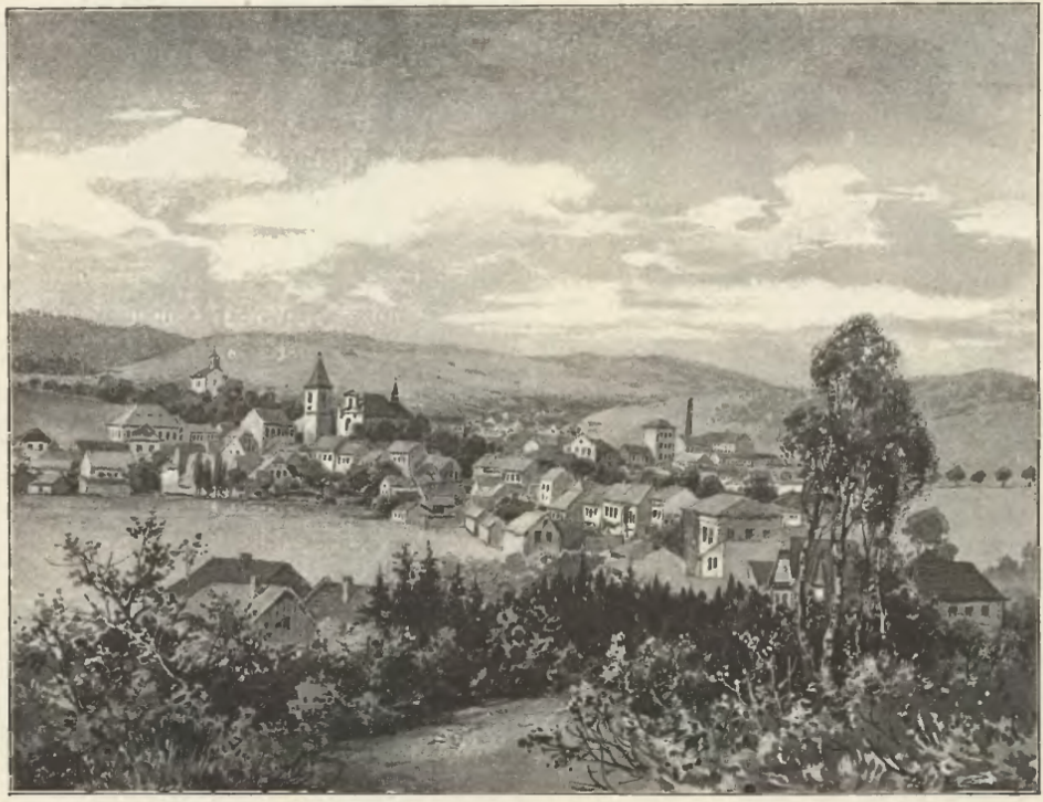 View of Červený Kostelec